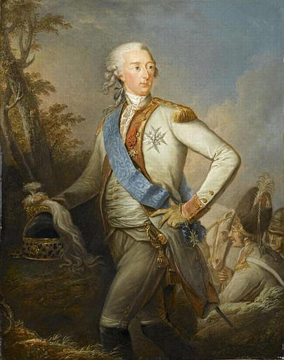 Portrait of Louis Joseph, Prince of Condé (1736-1818)